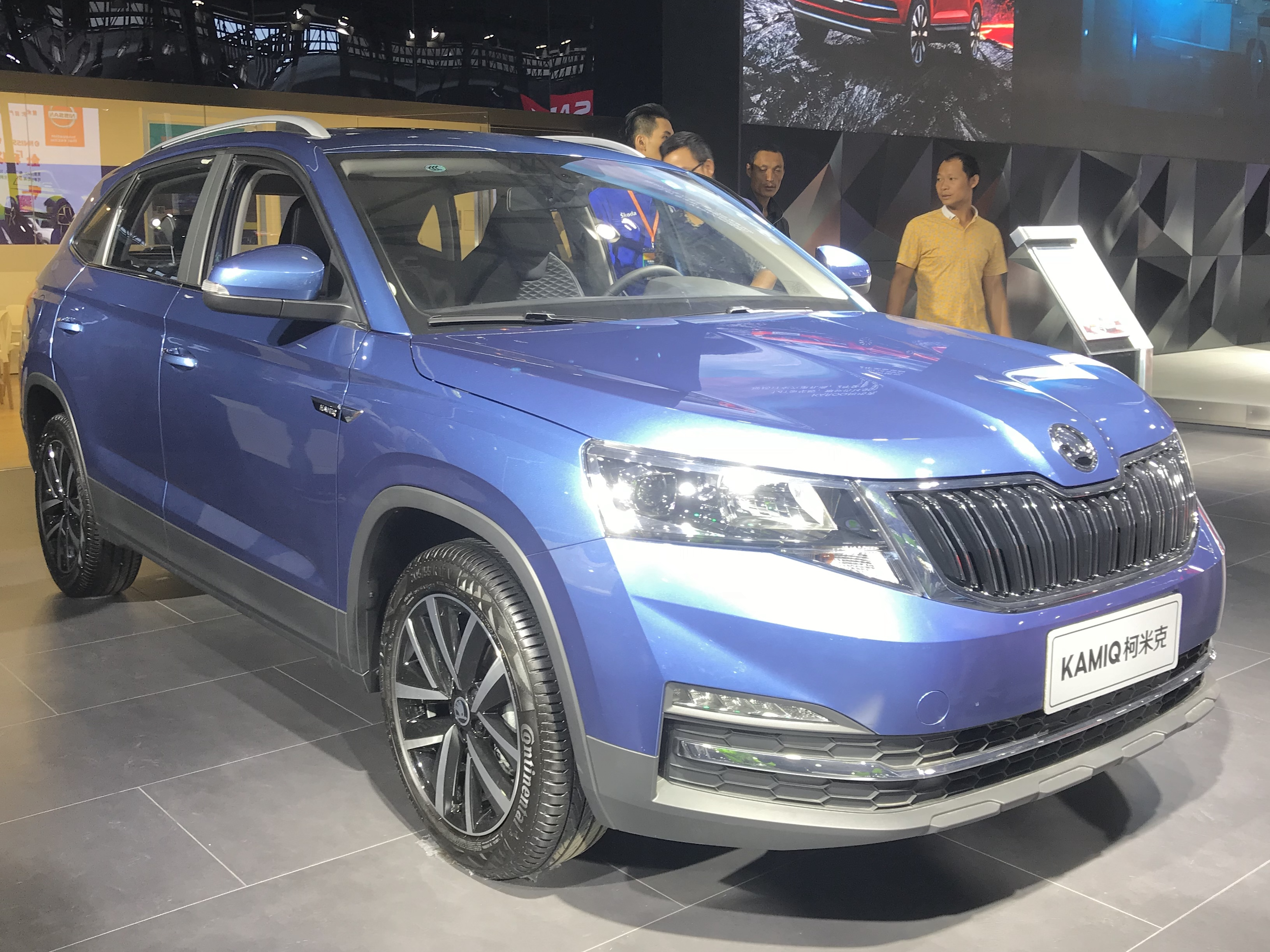 Skoda Kamiq front